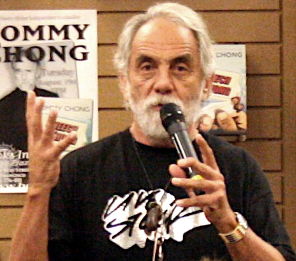 Tommy Chong speaking in a book store in San Fransisco in 2008.